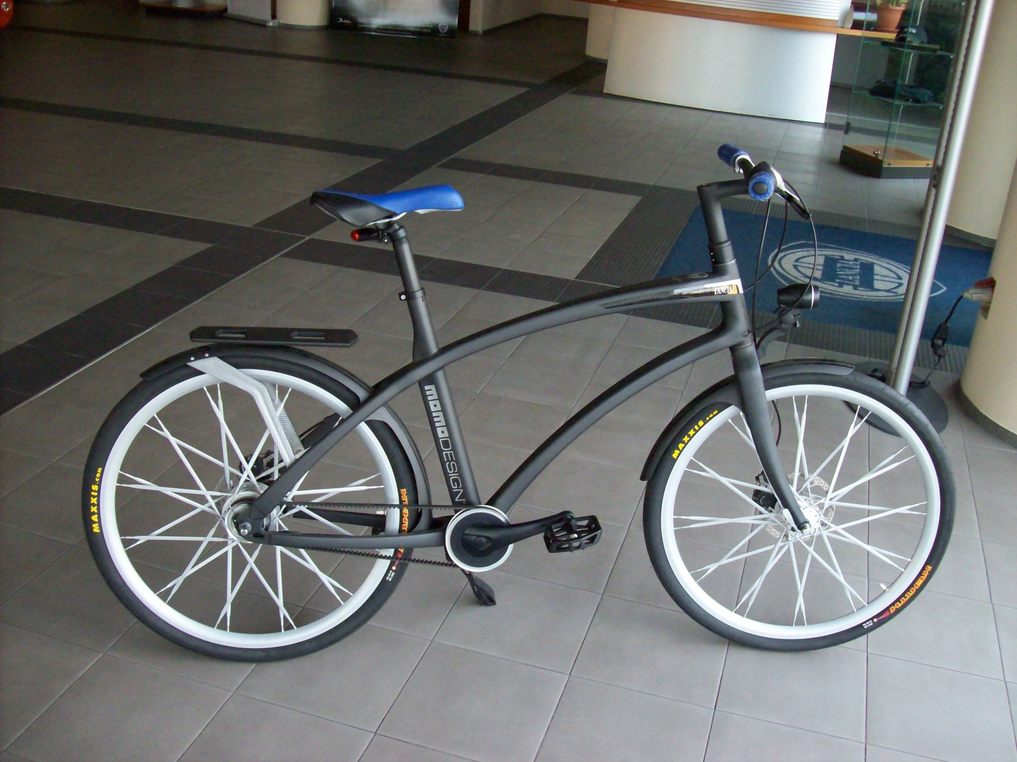 A Lancia concept-bicycle created by MOMO Design